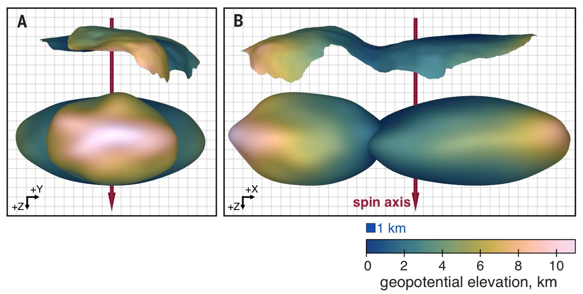 Shape model of the contact binary KBO 486958 Arrokoth, based on stereographic perspectives of the object in New Horizons images. The model is colored to show variations of the geopotential elevation across Arrokoth's surface.